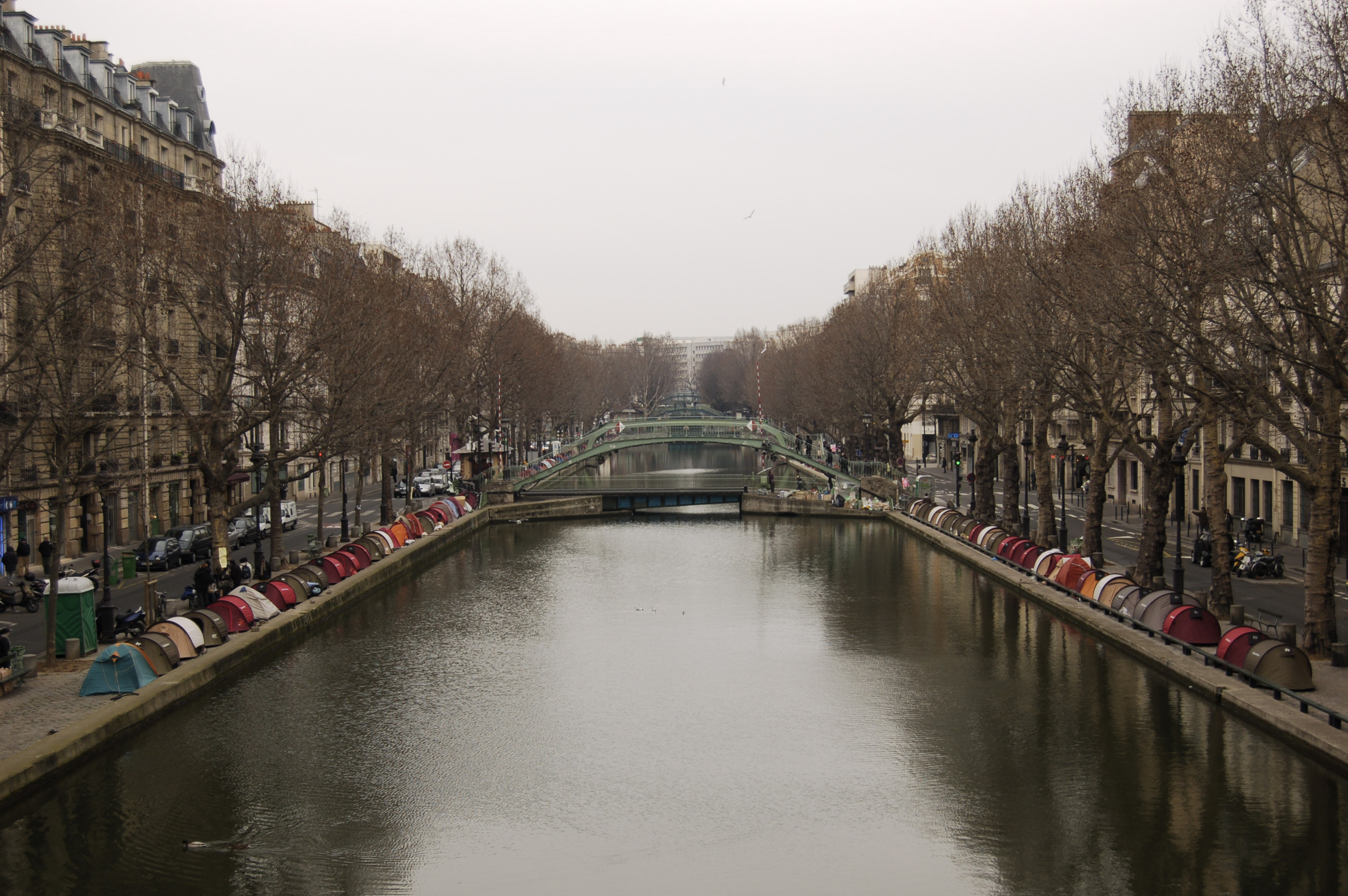 A quixotic (in fact the groupd who organised it call itself "Les enfants de don Quichotte": "Don Quixote's children") attempt to raise media awareness of poverty in France. These tents are housing homeless people. Note that the proximity to the water makes the whole area frigid in winter.Les_tentes_des_enfants_de_Don_Quichotte